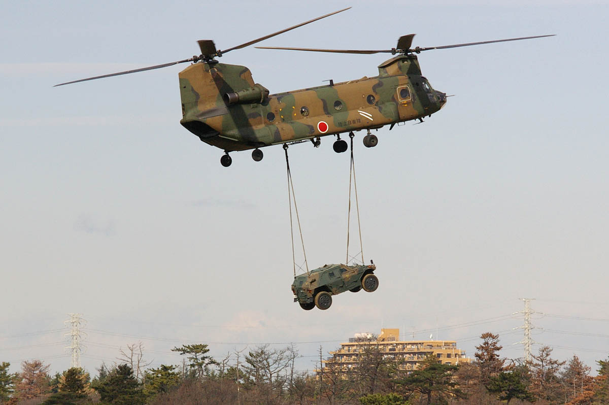 JGSDF CH-47J.In Narashino,Japan,JGSDF 1st Airborne Brigade 2008 first drop manuver 陸上自衛隊CH-47J JG2902 第1ヘリコプター団第1ヘリコプター隊第2飛行隊